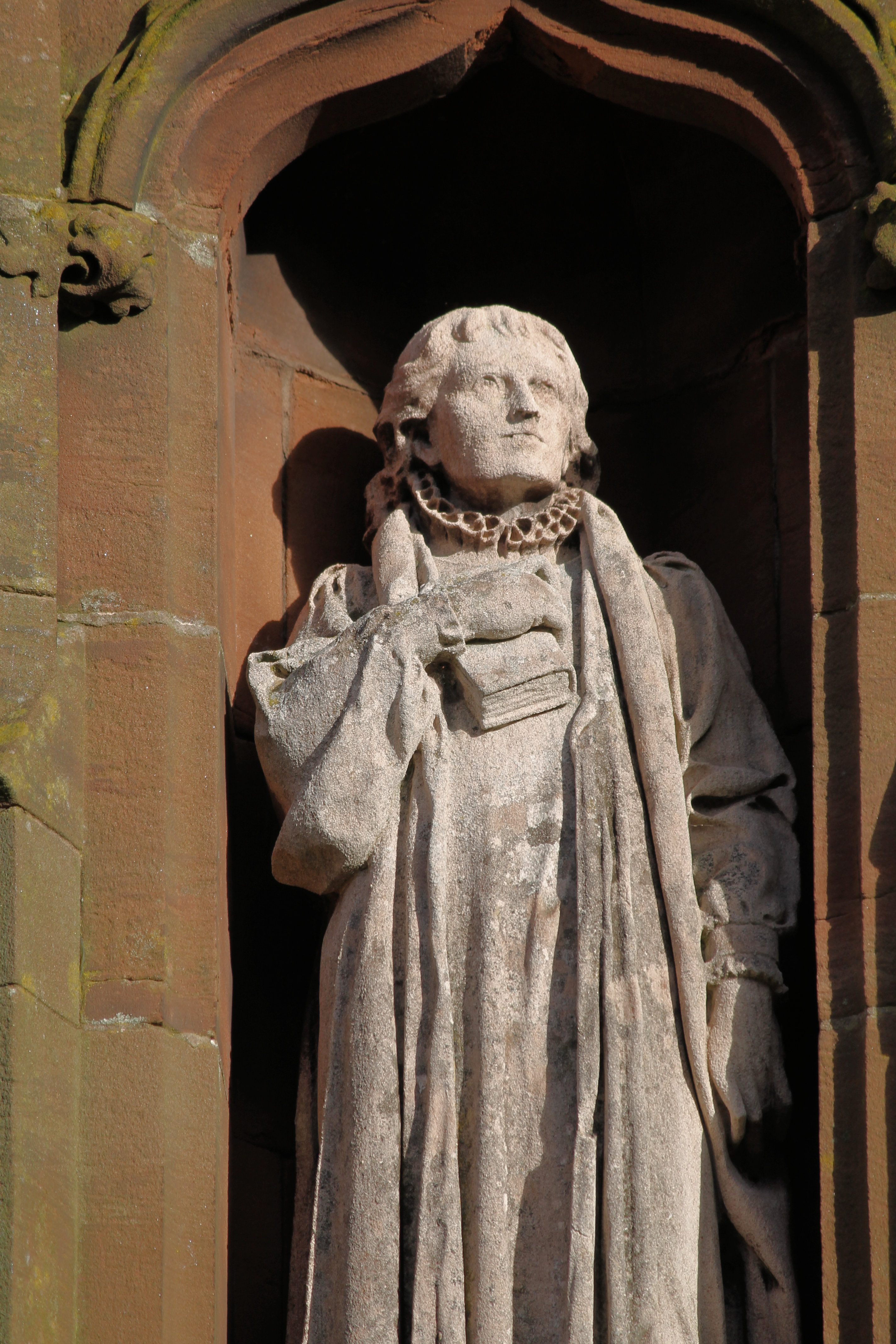 Edmund Prys (Welsh / original: Edwmnd Prys); Translators Memorial, St Asaph Cathedral, Denbighshire. Commisioned in 1888 on the tercentenary of the Bible's completion.